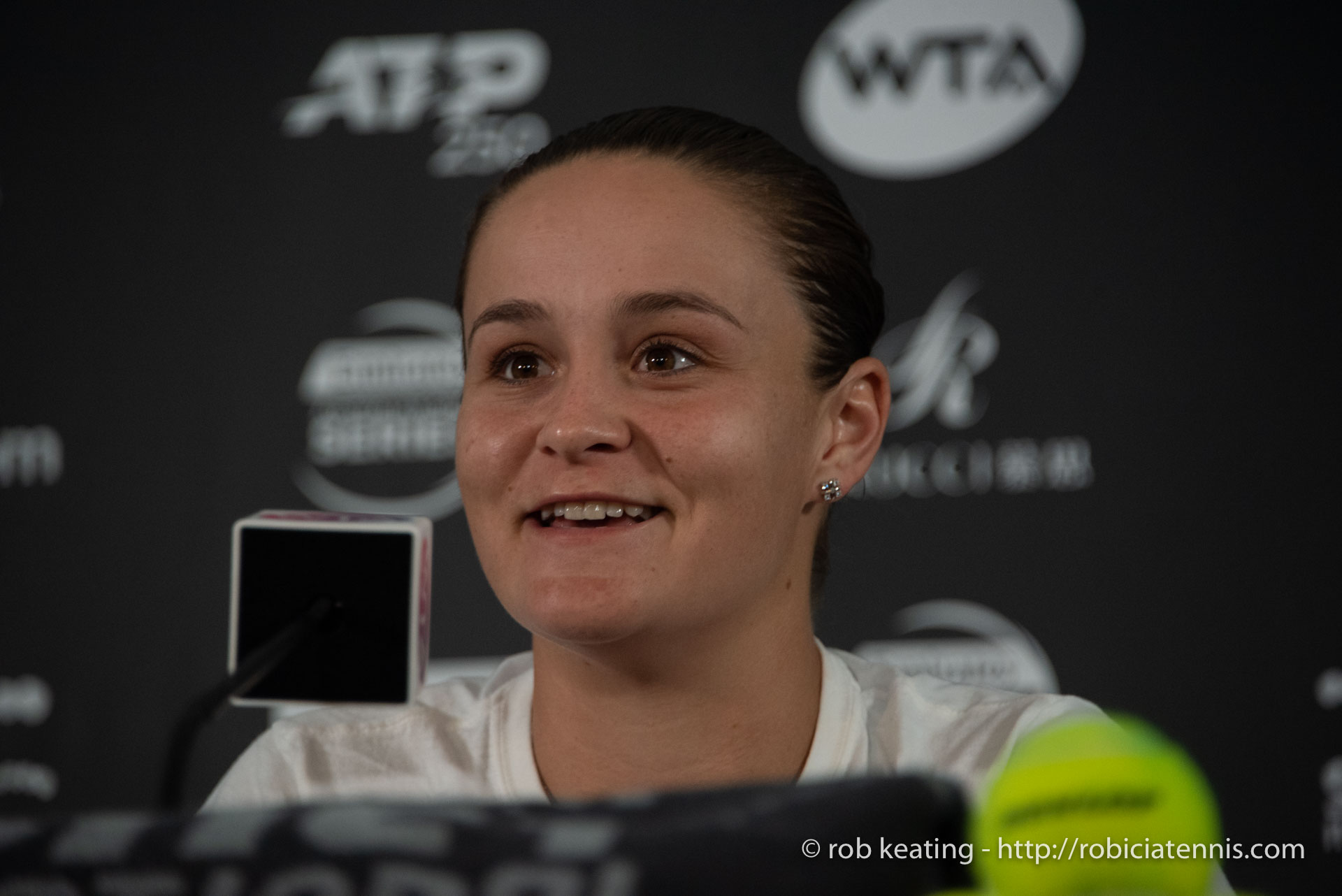 Sydney, Australia - 8 January 2018: Australia's Ash Barty in a press conference following her win over Jelena Ostapenko in round one, Sydney Olympic Park. (Photo by Rob Keating/robiciatennis.com)